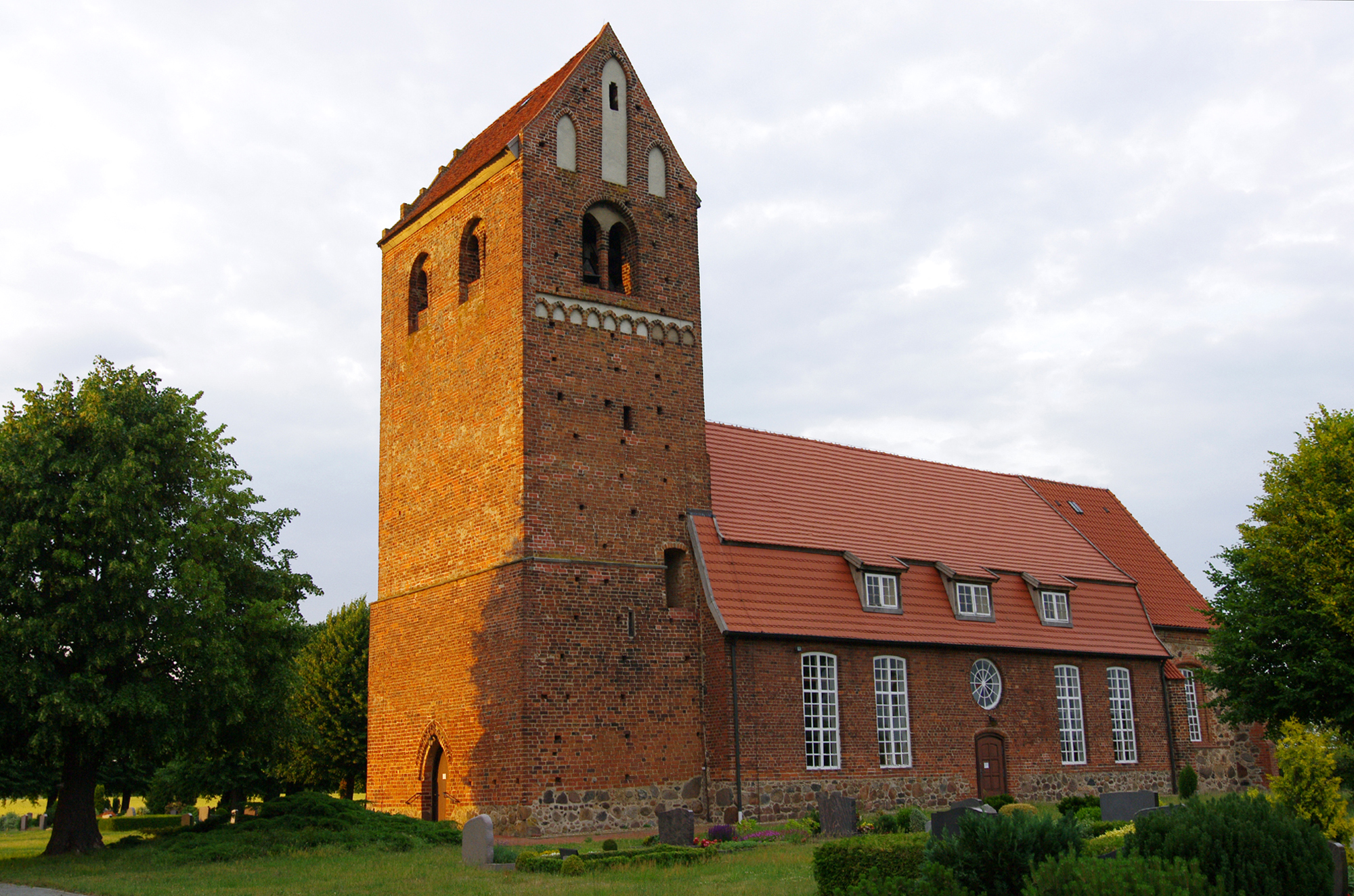 The church "Hohe Kirche" in the landscape "Lemgow", Wendland, northern Germany.